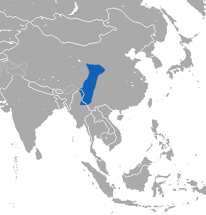 Lesser Striped Shrew (Sorex bedfordiae) range